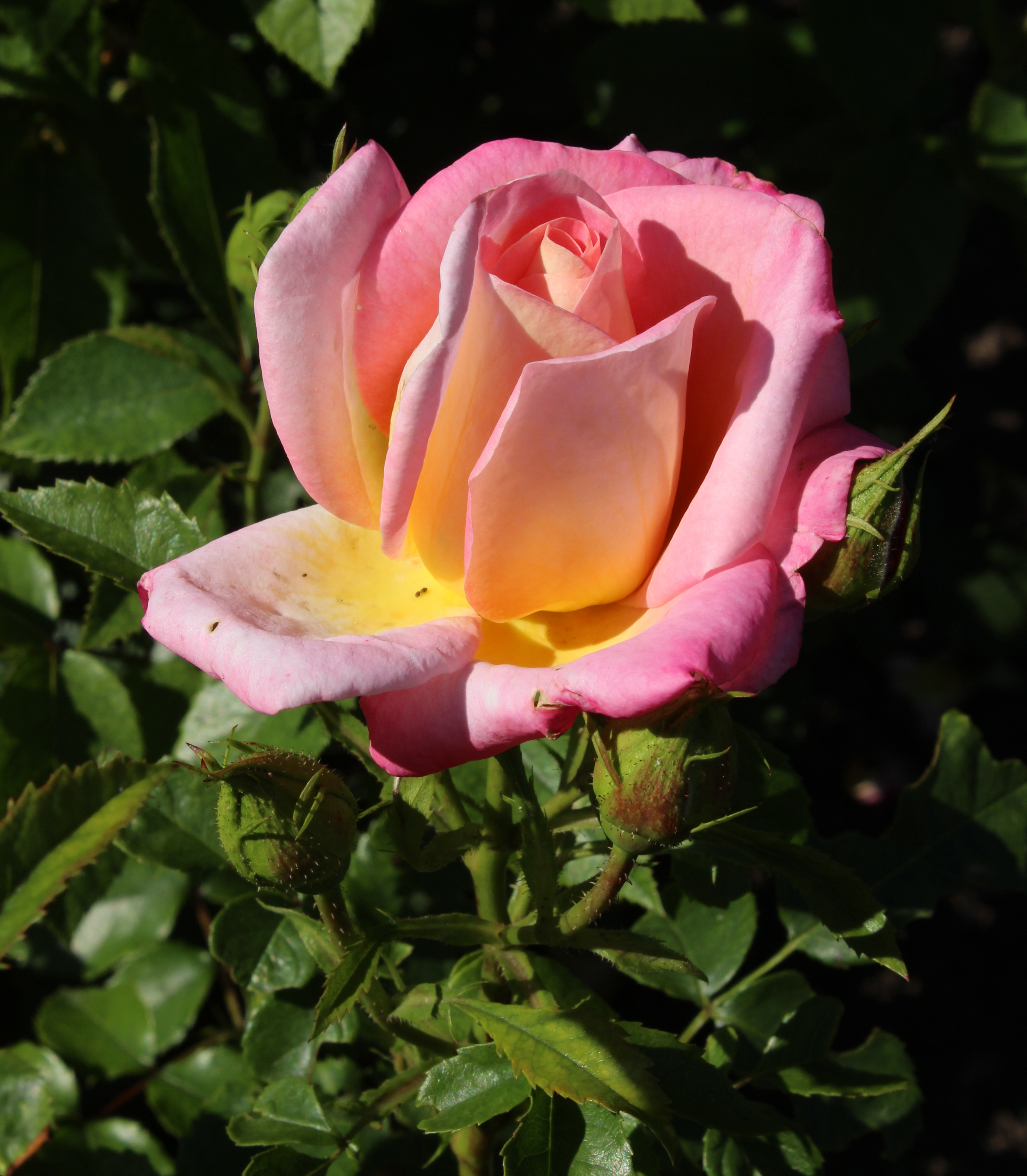 Rosa 'Inspiration' in the Rosarium Baden in the Doblhoffpark in Baden bei Wien. Identified by sign.